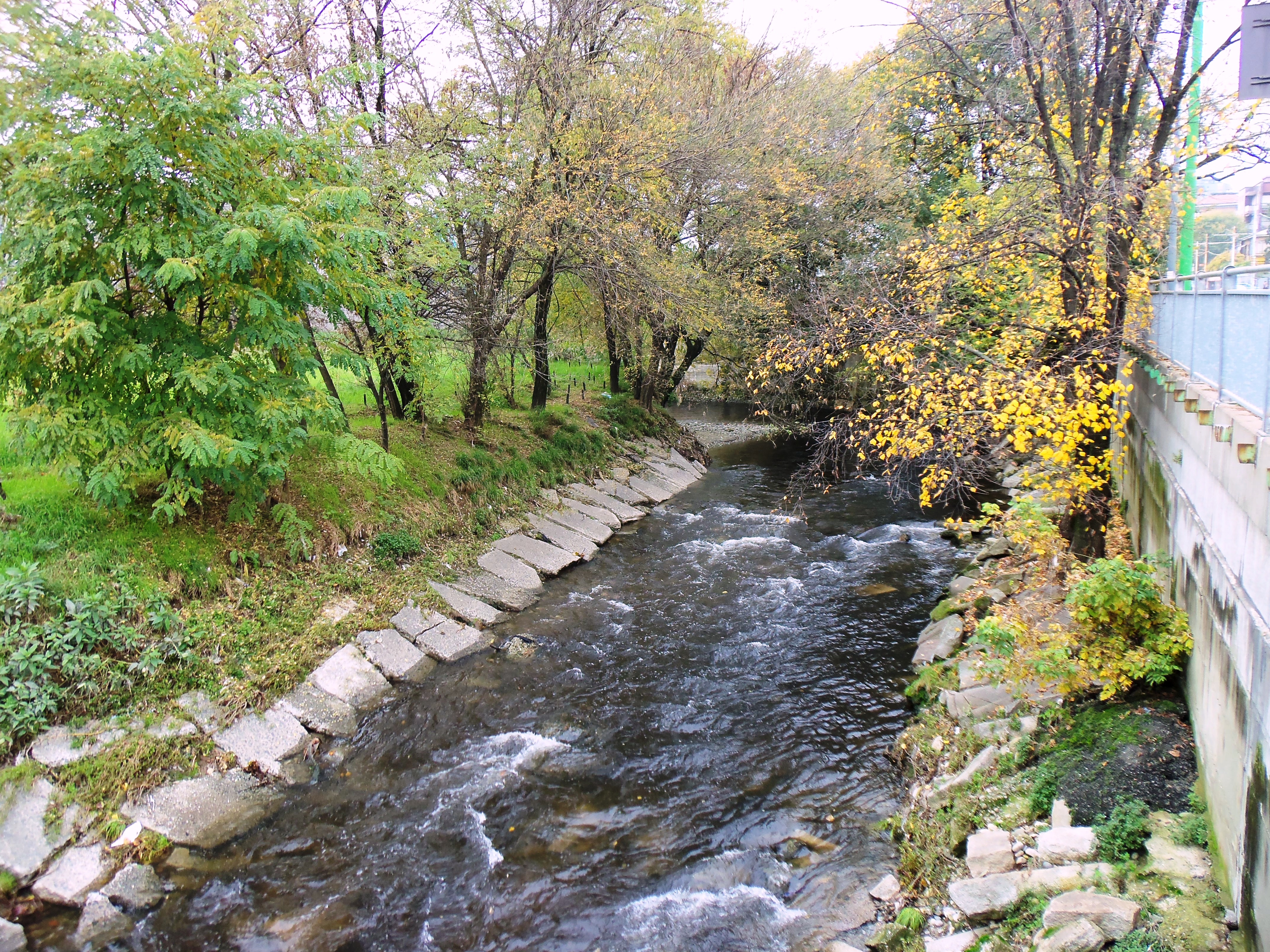 The Seveso leaving Bresso